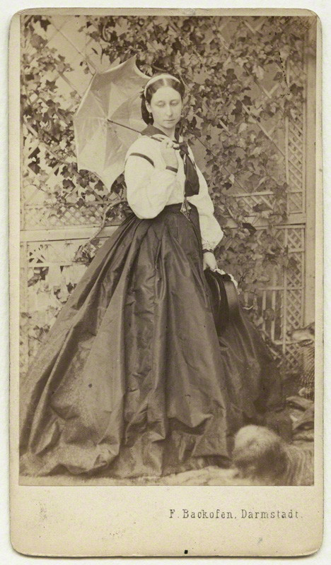 Princess Alice, Grand Duchess of Hesse